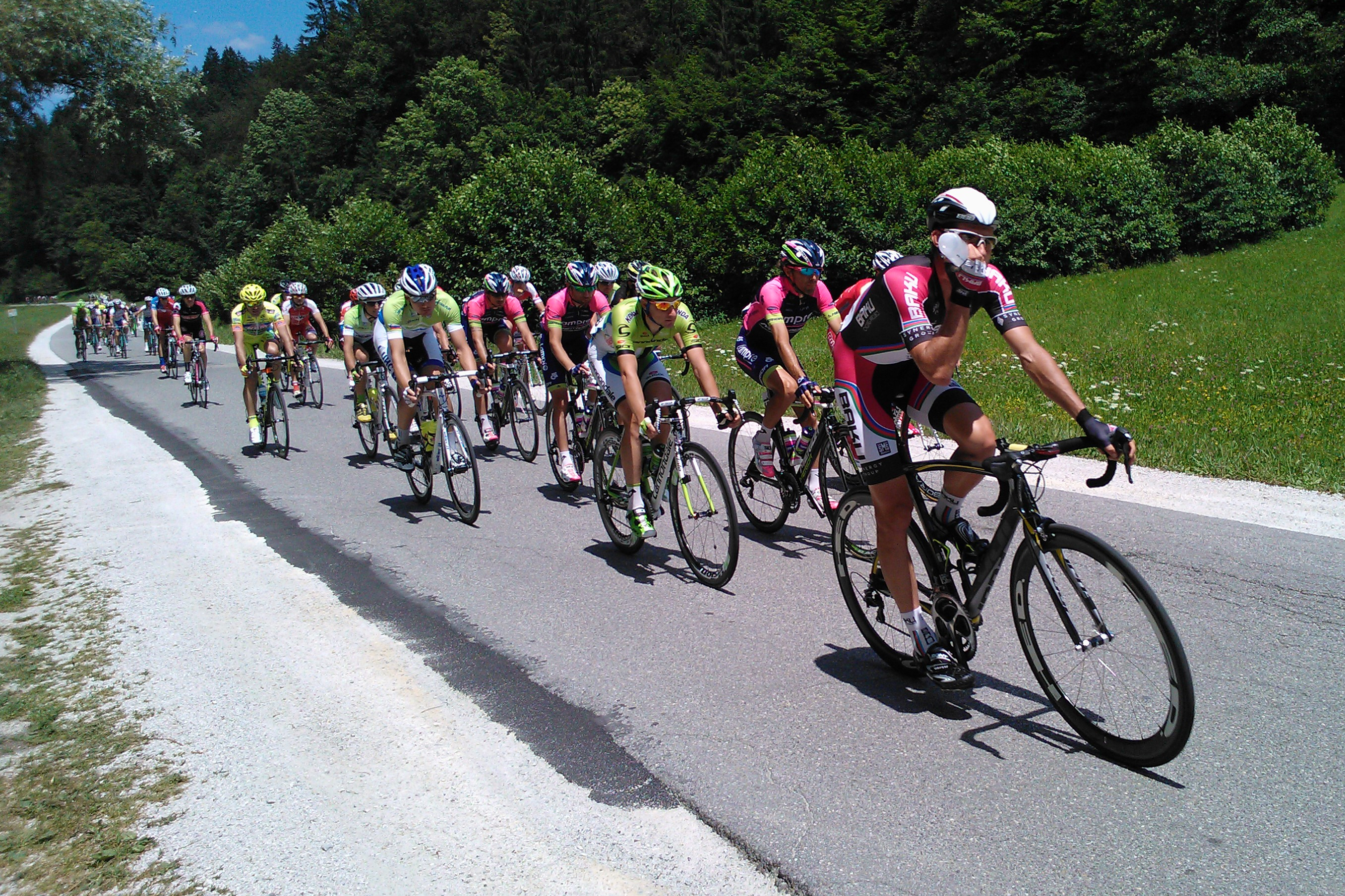 Tour of Slovenia 2014. Stage 4, Škofja Loka-Novo mesto. Location near Spodnji Hotič